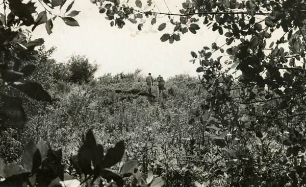 Persistent URL: Local call number: KOR0355 Title: Koreshans walking on Calusa-built mounds on Mound Key Date: ca. 1900 Physical descrip: 1 photoprint - b&w - 5 x 7 in. Series Title: Koreshan Unity Collection Repository: State Library and Archives of Florida 500 S. Bronough St., Tallahassee, FL, 32399-0250 USA, Contact: 850.245.6700